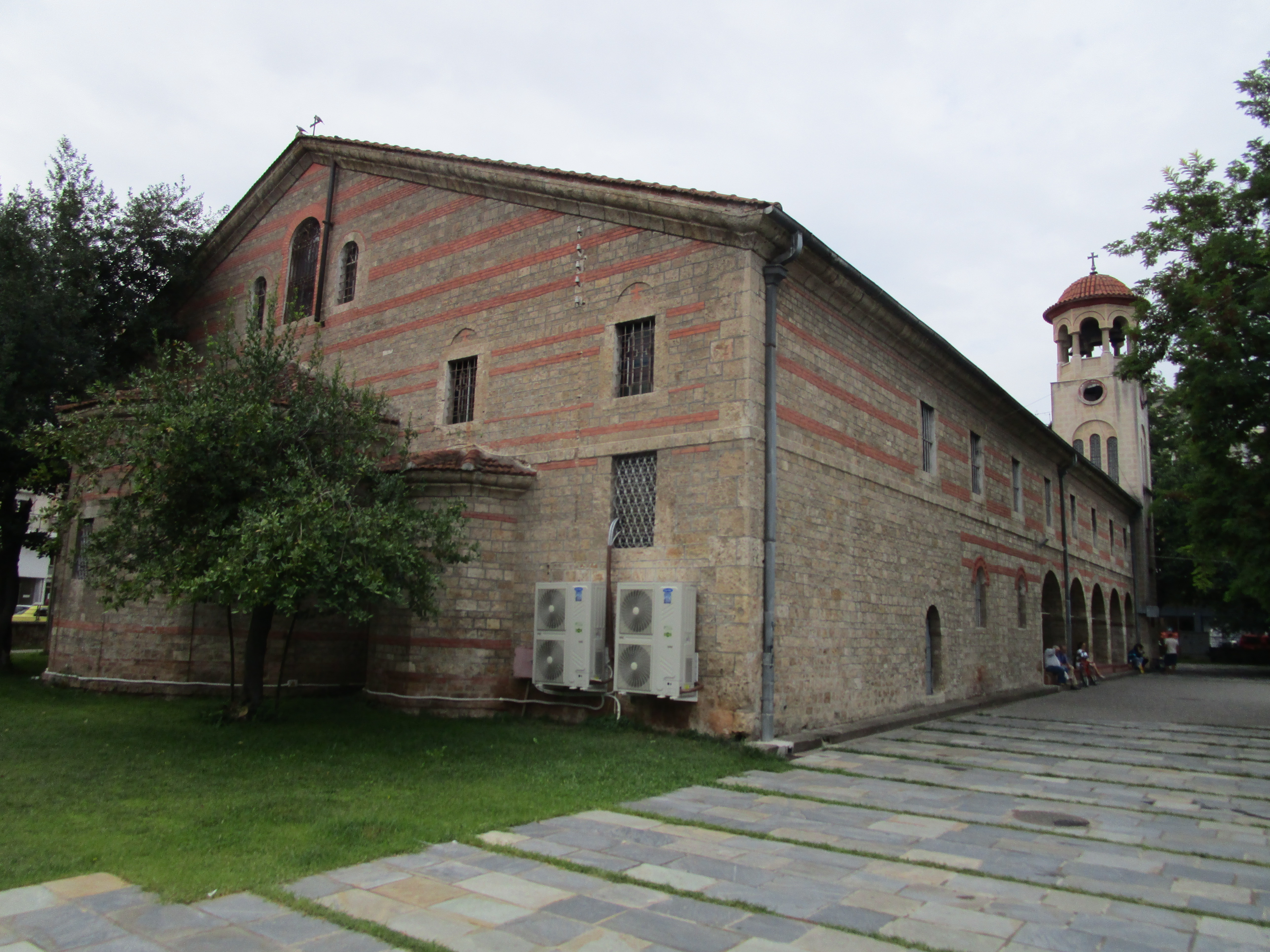 St. Antonios Neo, Ber